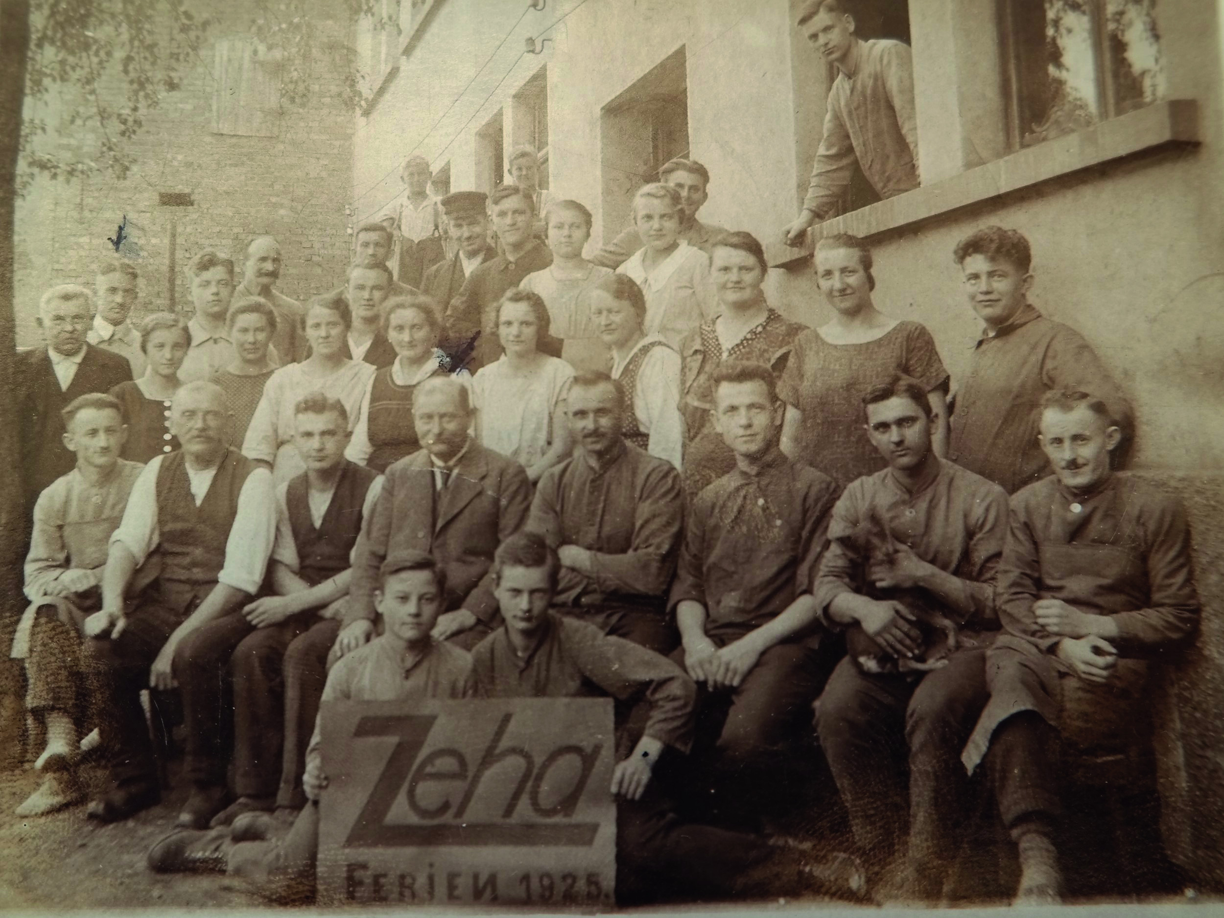 Zeha shoe facctory’s workforce with the trademark 1925